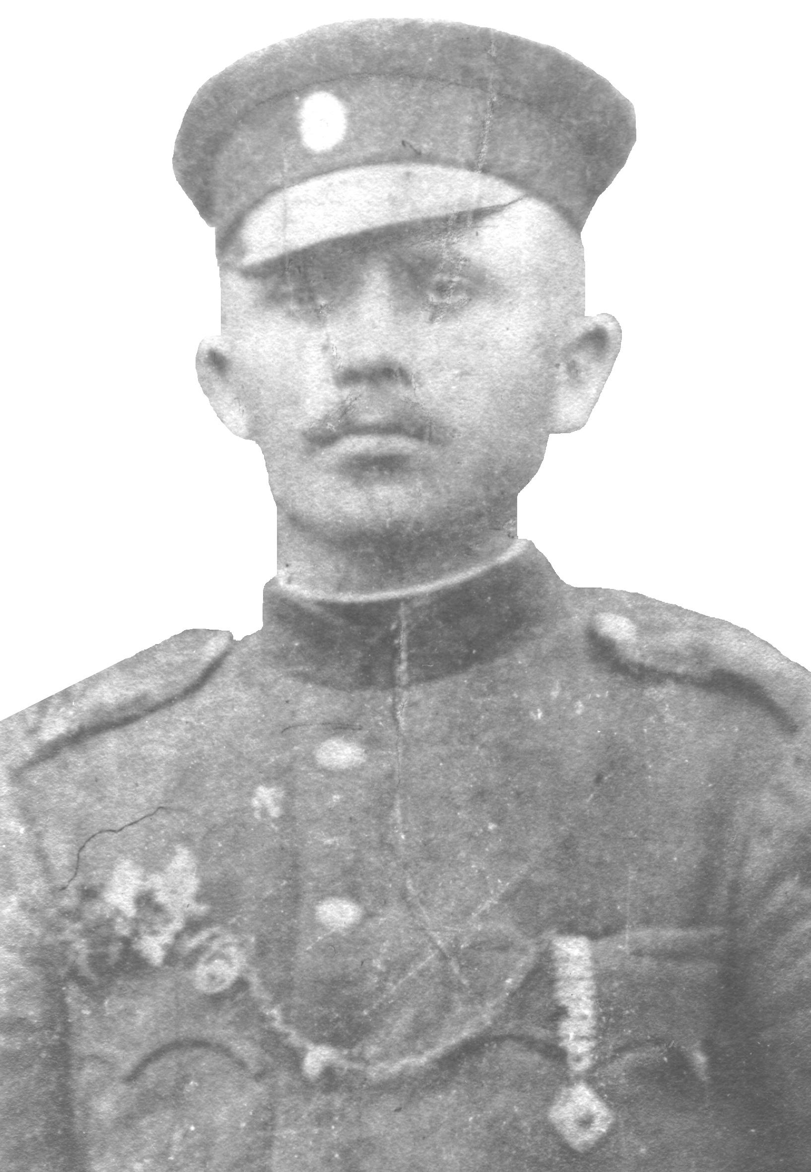 Георги Тодоров Апостолов във военна униформа.